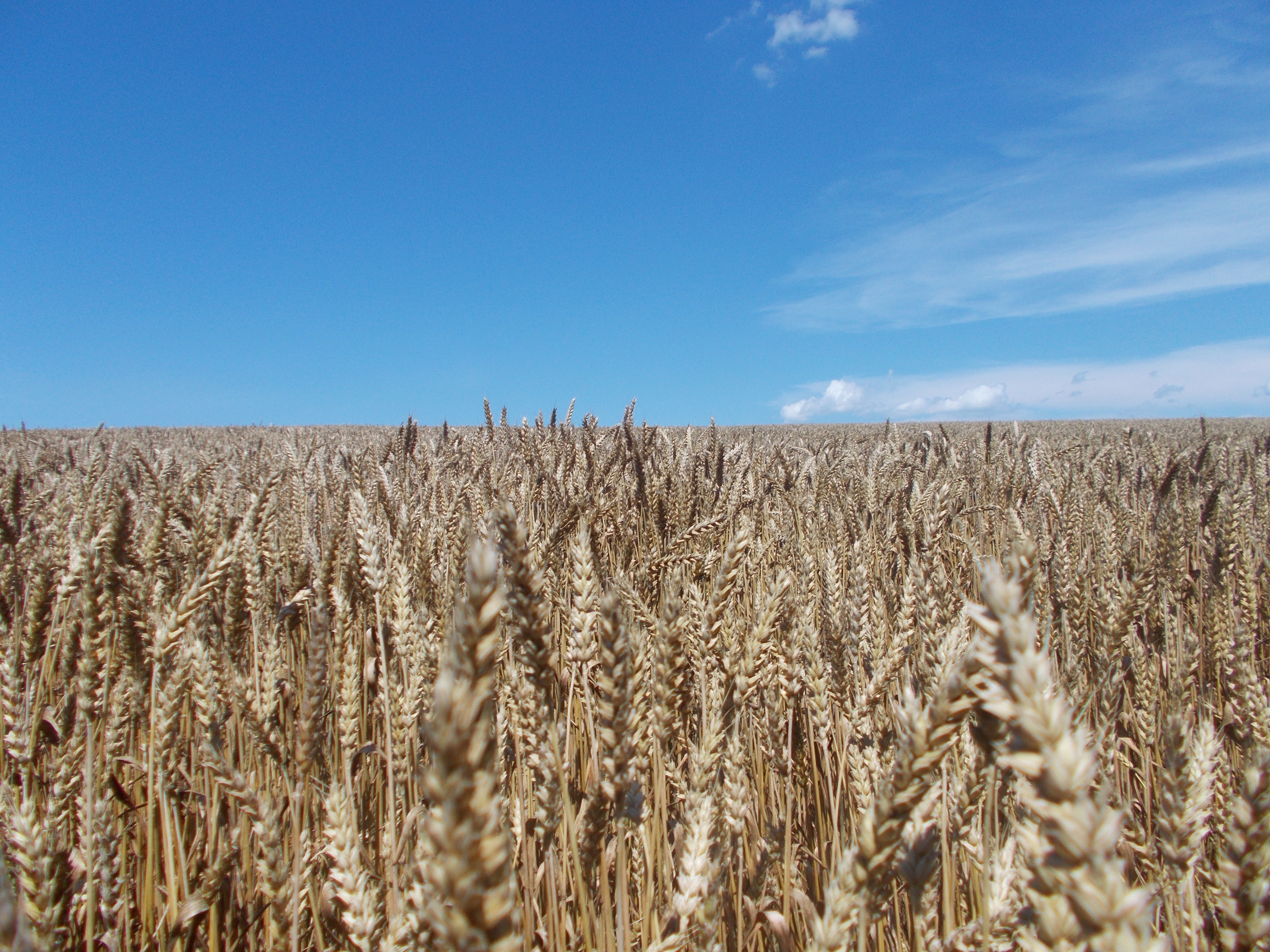 Wheat fields in Serbia.